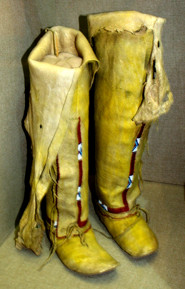 Southern Arapaho women's beaded buckskin leggings and attached moccasins, Oklahoma, ca. 1910, Oklahoma History Center